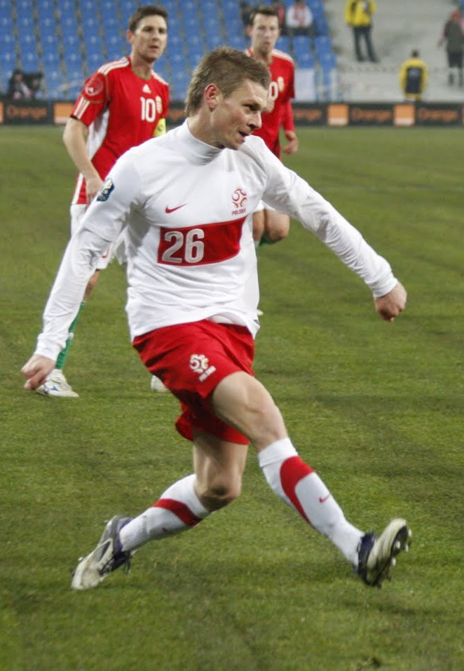 Polish football player Łukasz Piszczek